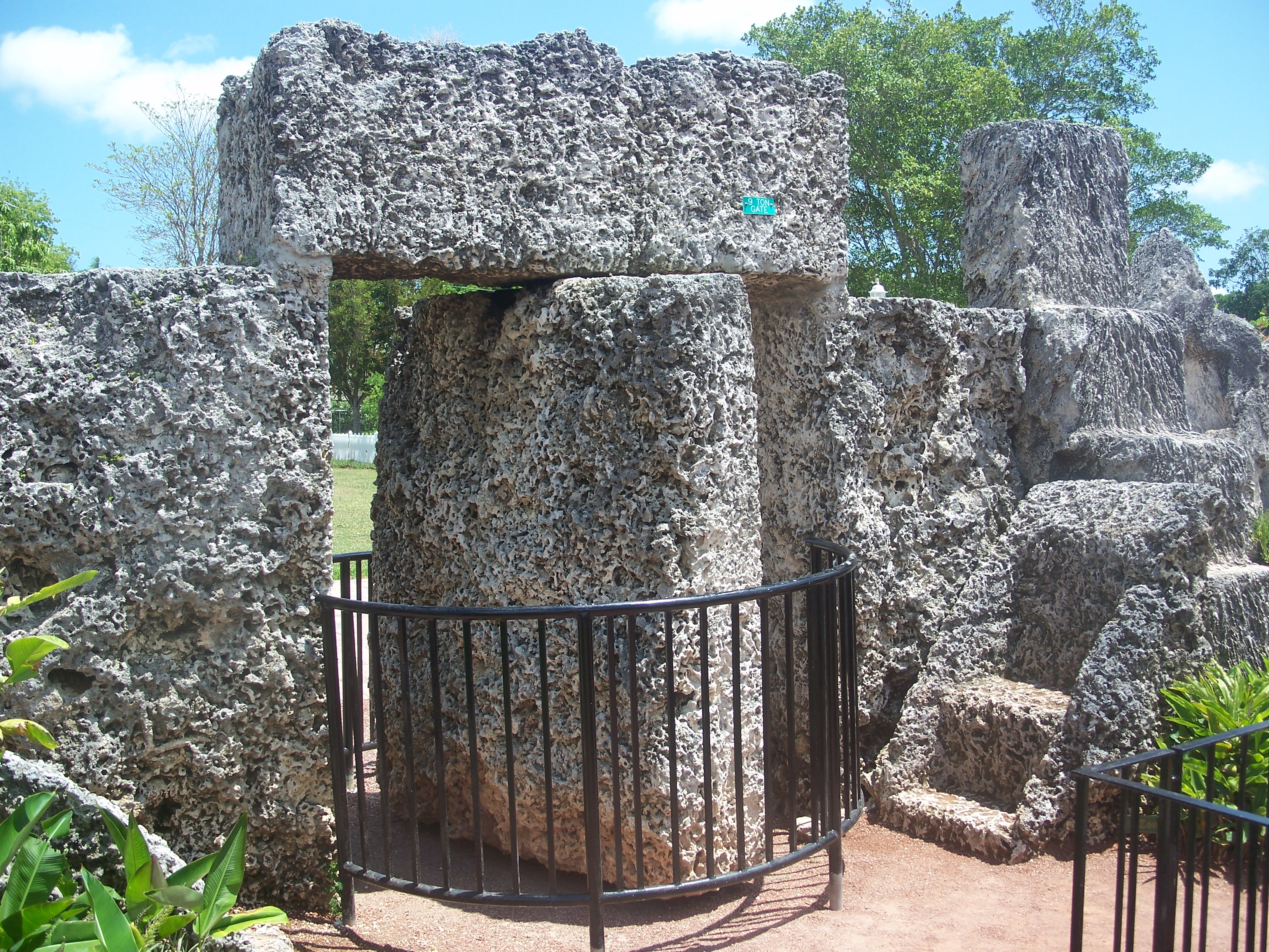 Homestead, Florida: Coral Castle: Nine ton revolving gate